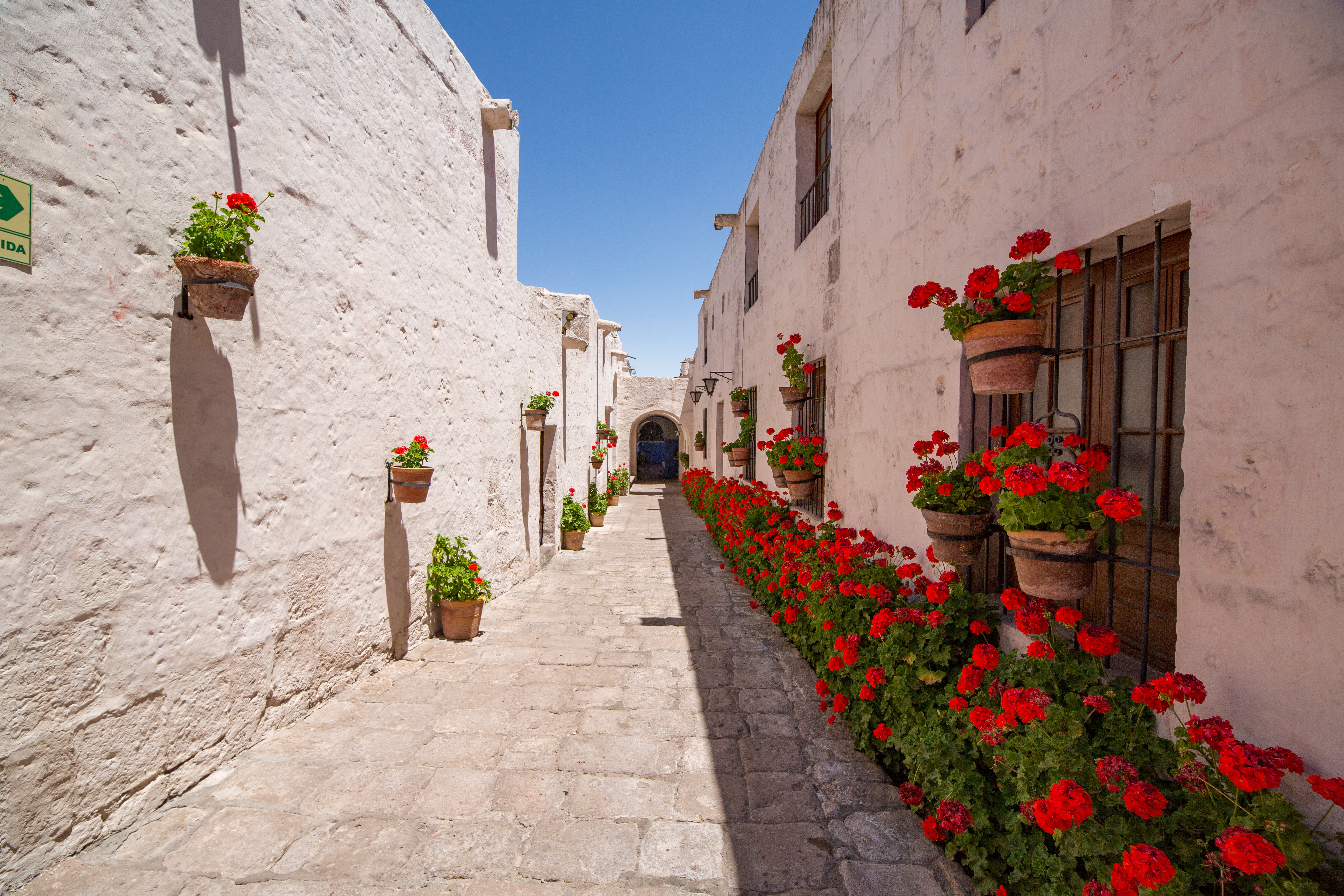 White sillar masonry with red geraniums in Santa Catalina Monastery in Arequipa, Peru